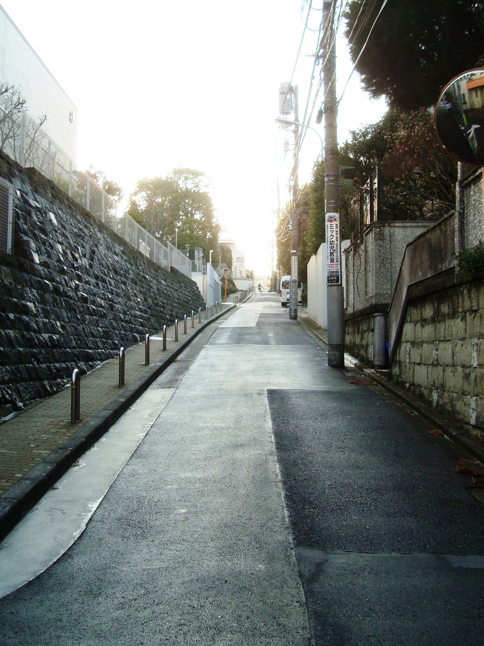 Ushi-zaka street, Azabu, Tokyo